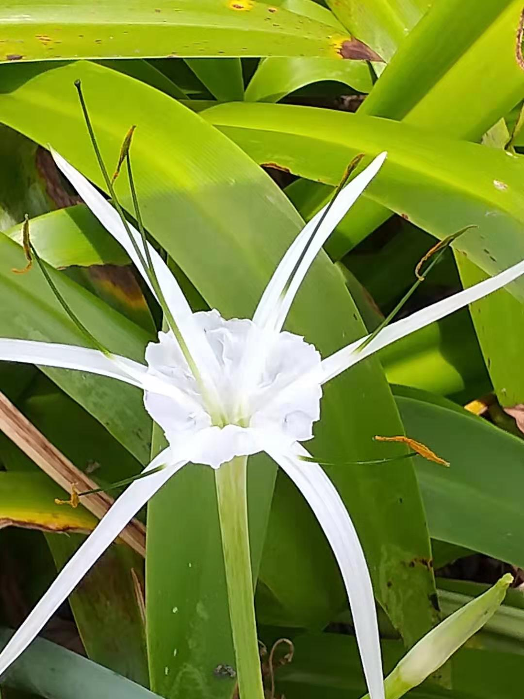 Hymenocallis speciosa. Northeast Coast National Scenic Area, Taiwan.